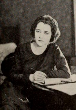 Still from the American drama film Bolshevism on Trial (1919) with Pinna Nesbit, on page 31 of the April 19, 1919 Exhibitors Herald.